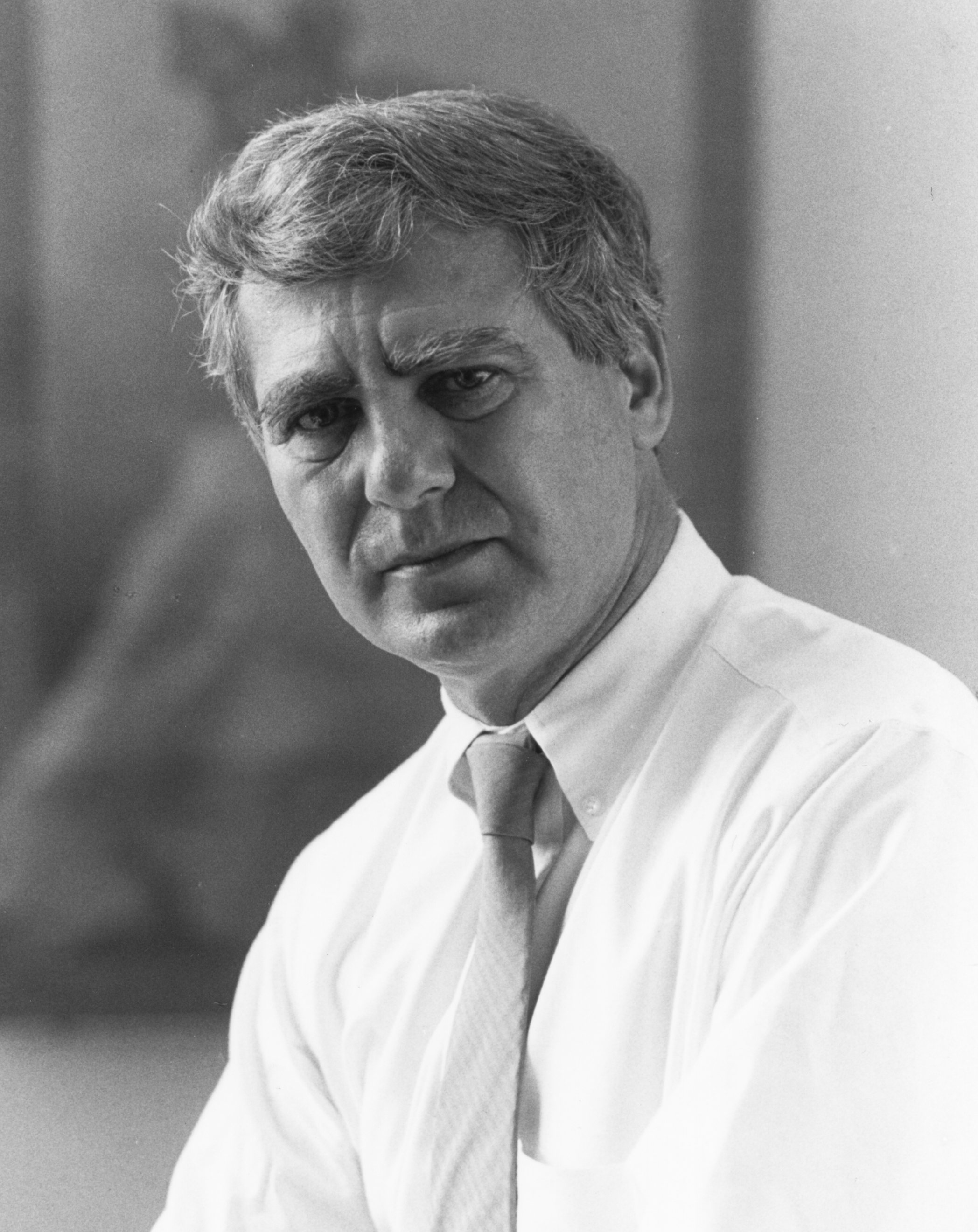 The official Syracuse portrait, circa 1986